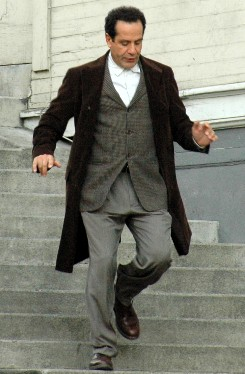 Tony Shalhoub crop